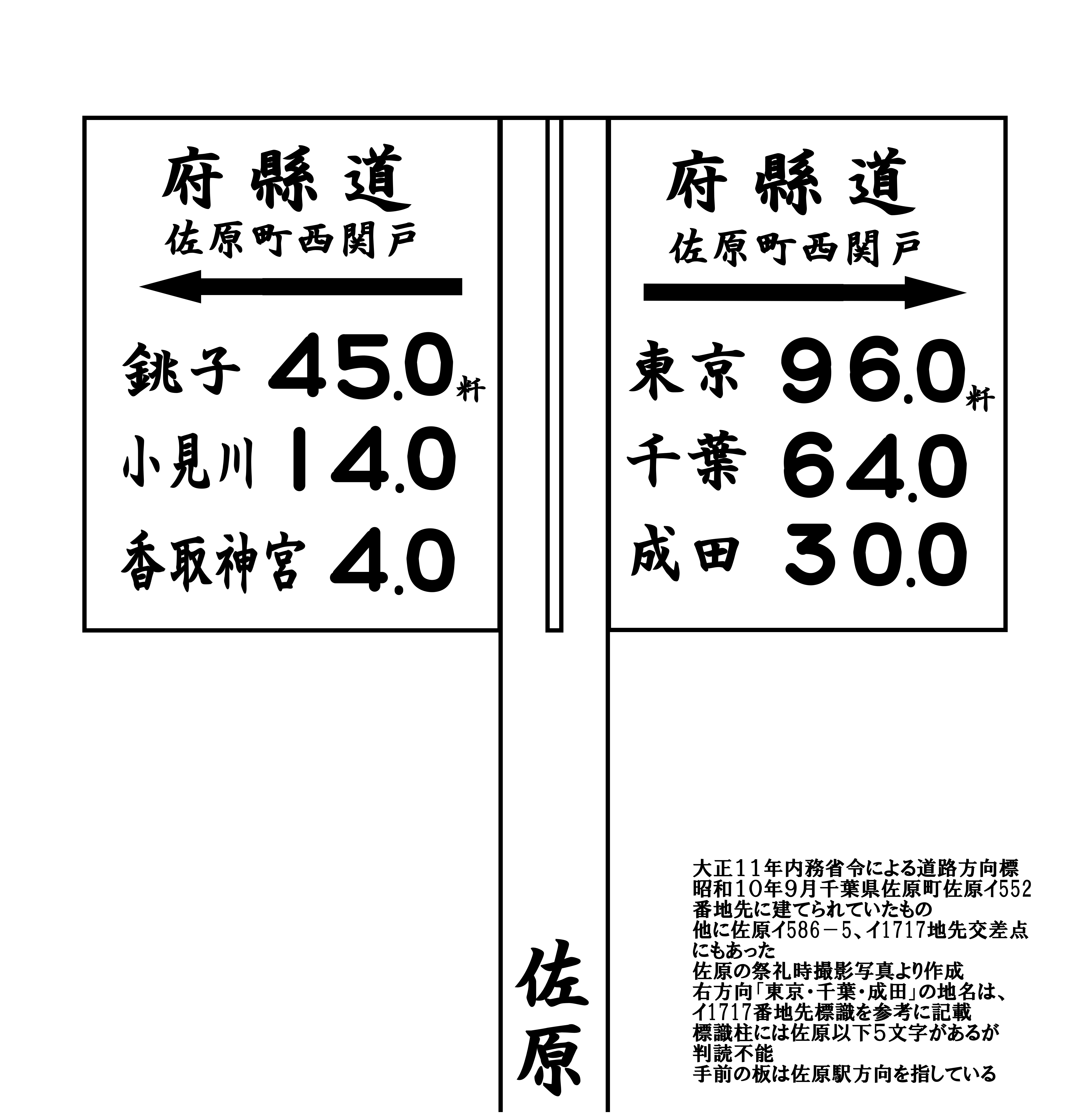 Road signs for Japan's 1922 style,Katori city,Japan